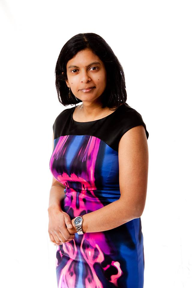 Rupa Huq 2015